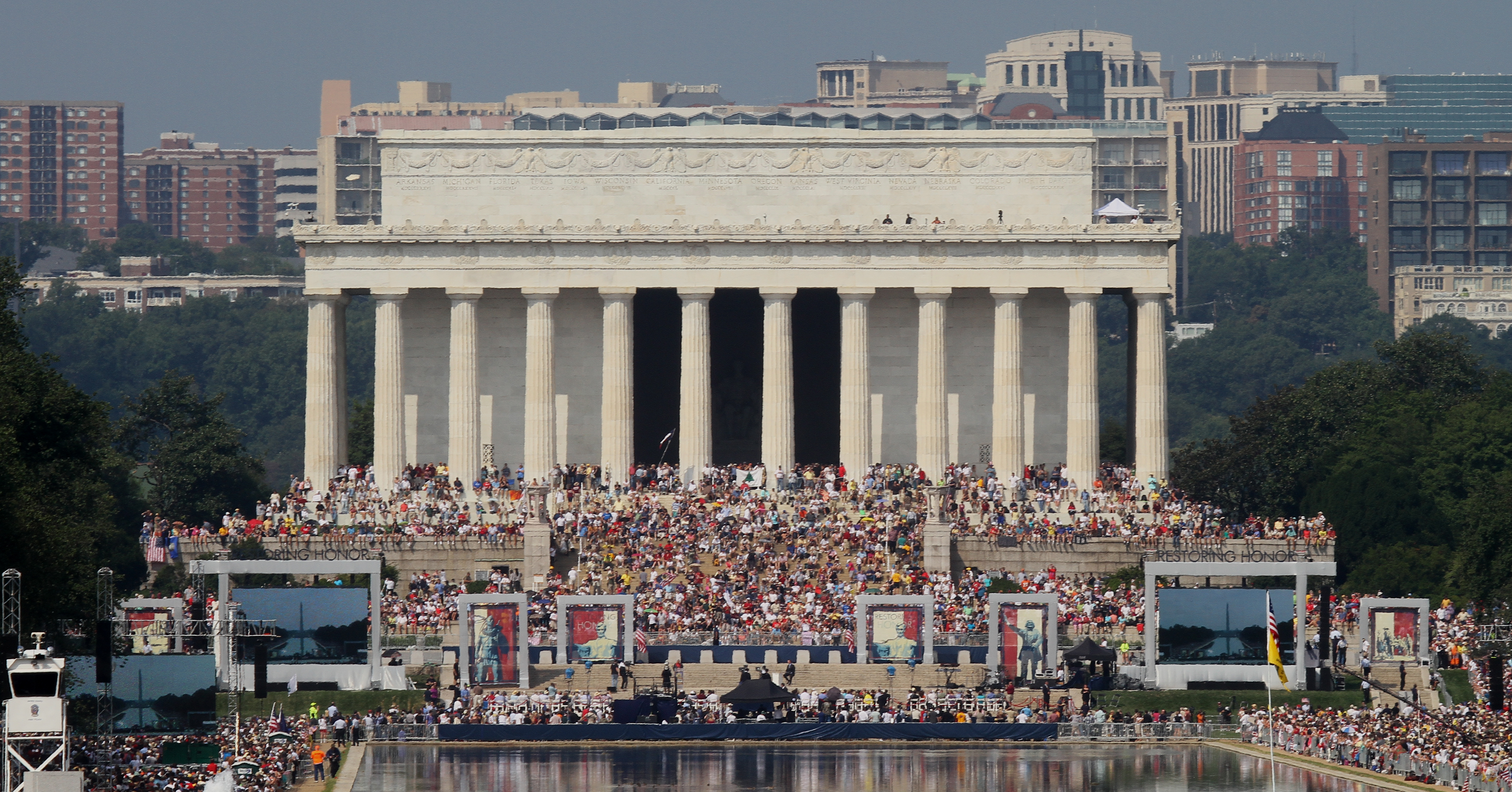 Glenn Beck's "Restoring Honor" Rally at the Lincoln Memorial